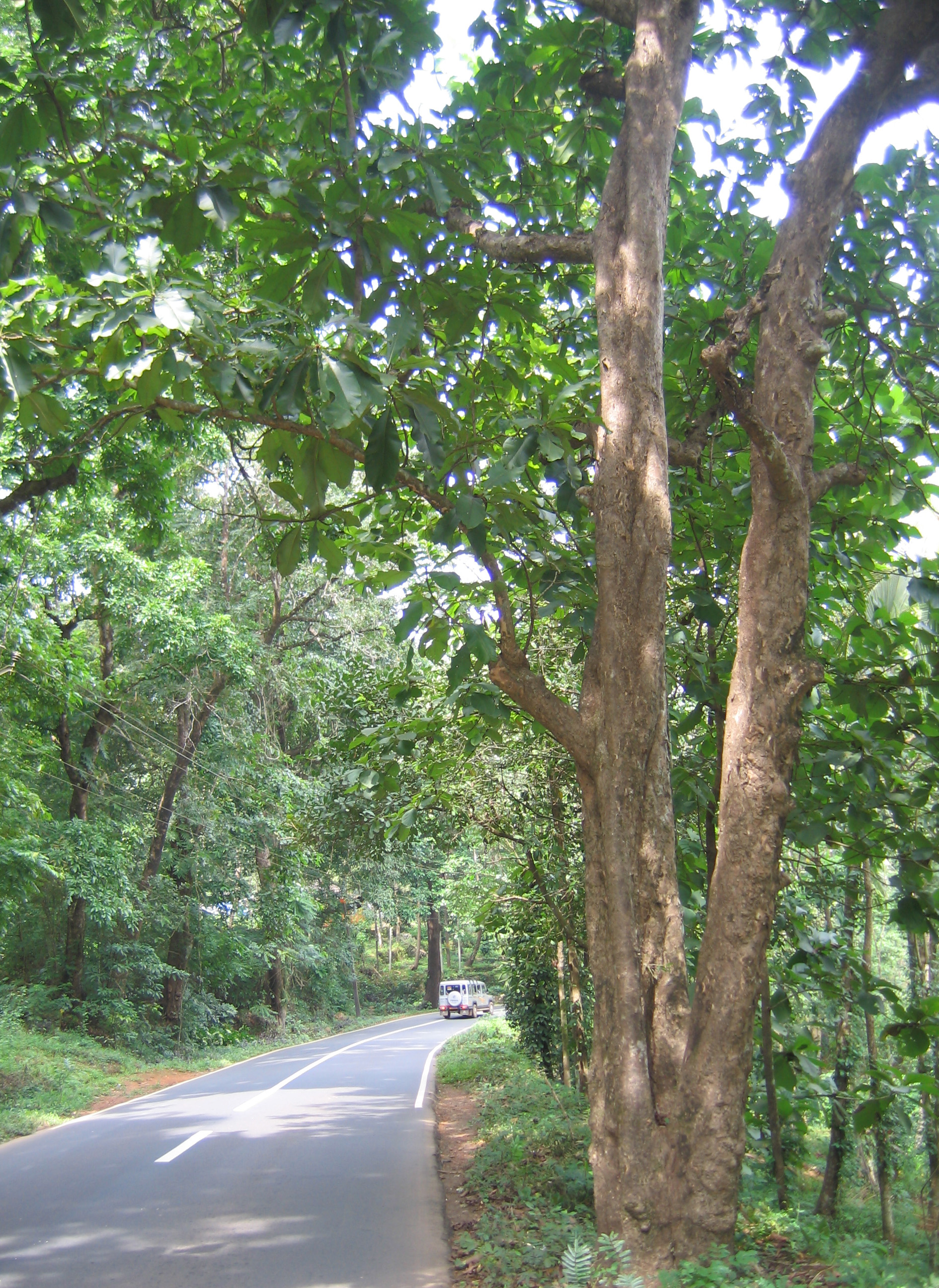 Dillenia pentagyna